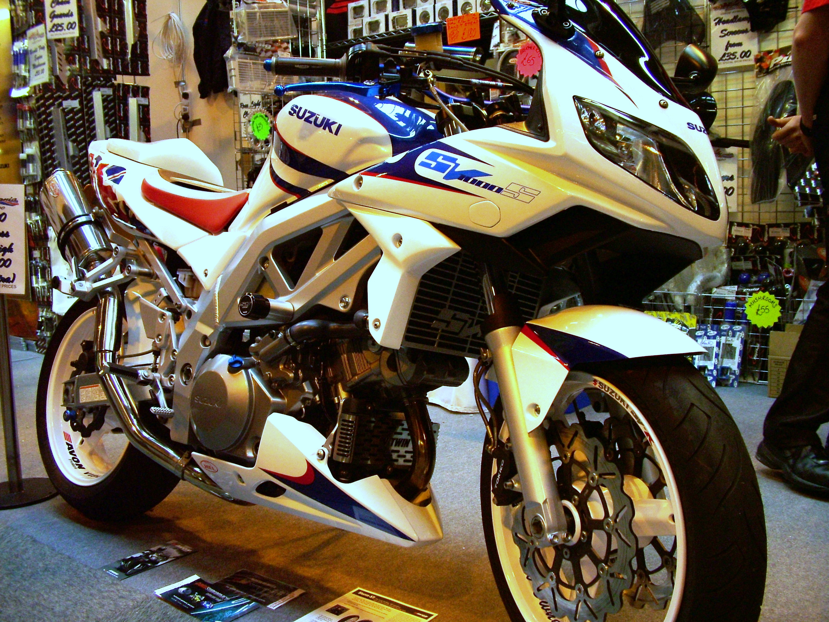 Suzuki SV1000S @ 2006 NEC Motorcycle and Scooter Show